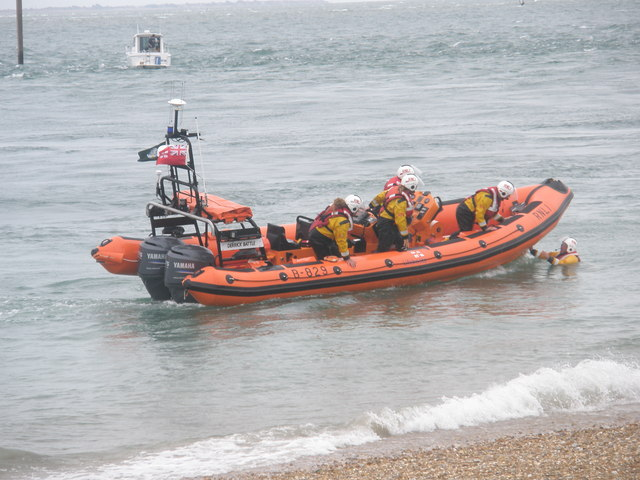 Lifeboat demonstration on Hayling RNLI Open Day (6)